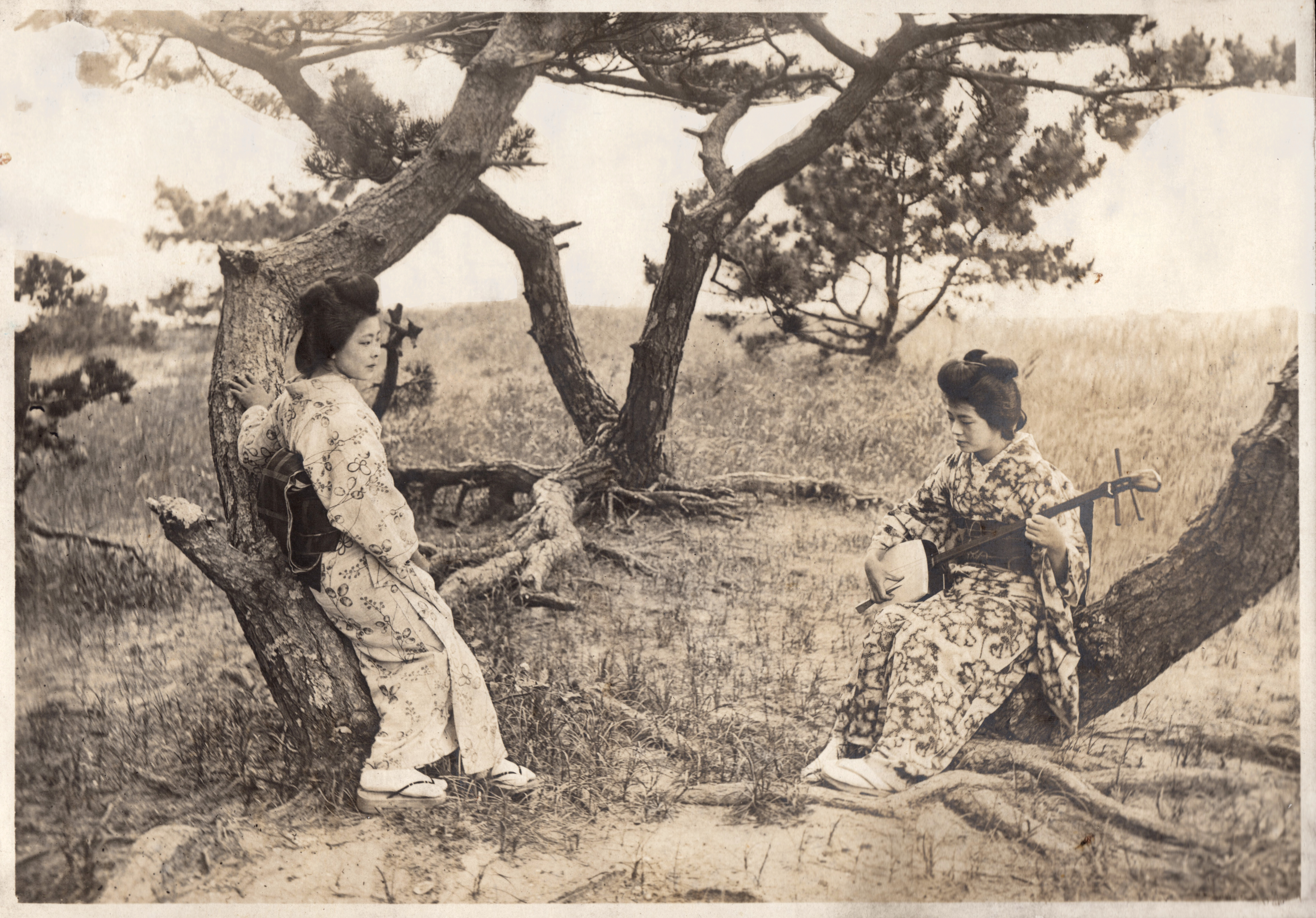 The woman on the right is playing the shamisen, a stringed musical instrument introduced into Japan between the 14th and 16th centuries. I love the sophisticated fabrics used in both kimonos. The design on the left looks like money plant (lunaria), printed or painted on the fabric. I'm familiar with the design on the shamisen player's kimono from Western fabrics. The pattern has a fractal quality. The photo was taken between 1914 and 1918 by Elstner Hilton. It is on the title page of Elstner's album. Image dimensions: 147mm x 102mm.